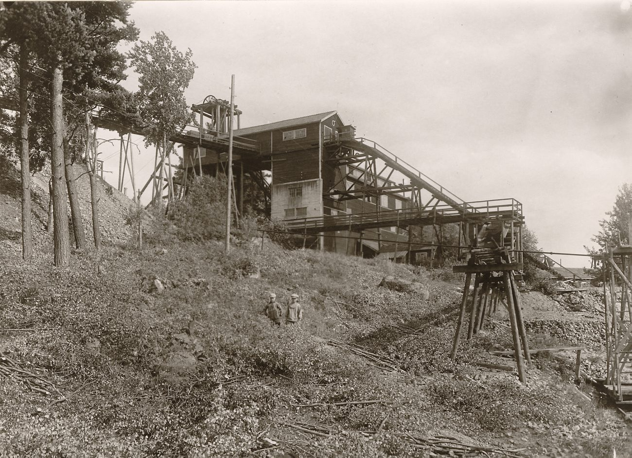 The mines of Kantorps gruvor in Sköldinge, Sweden.